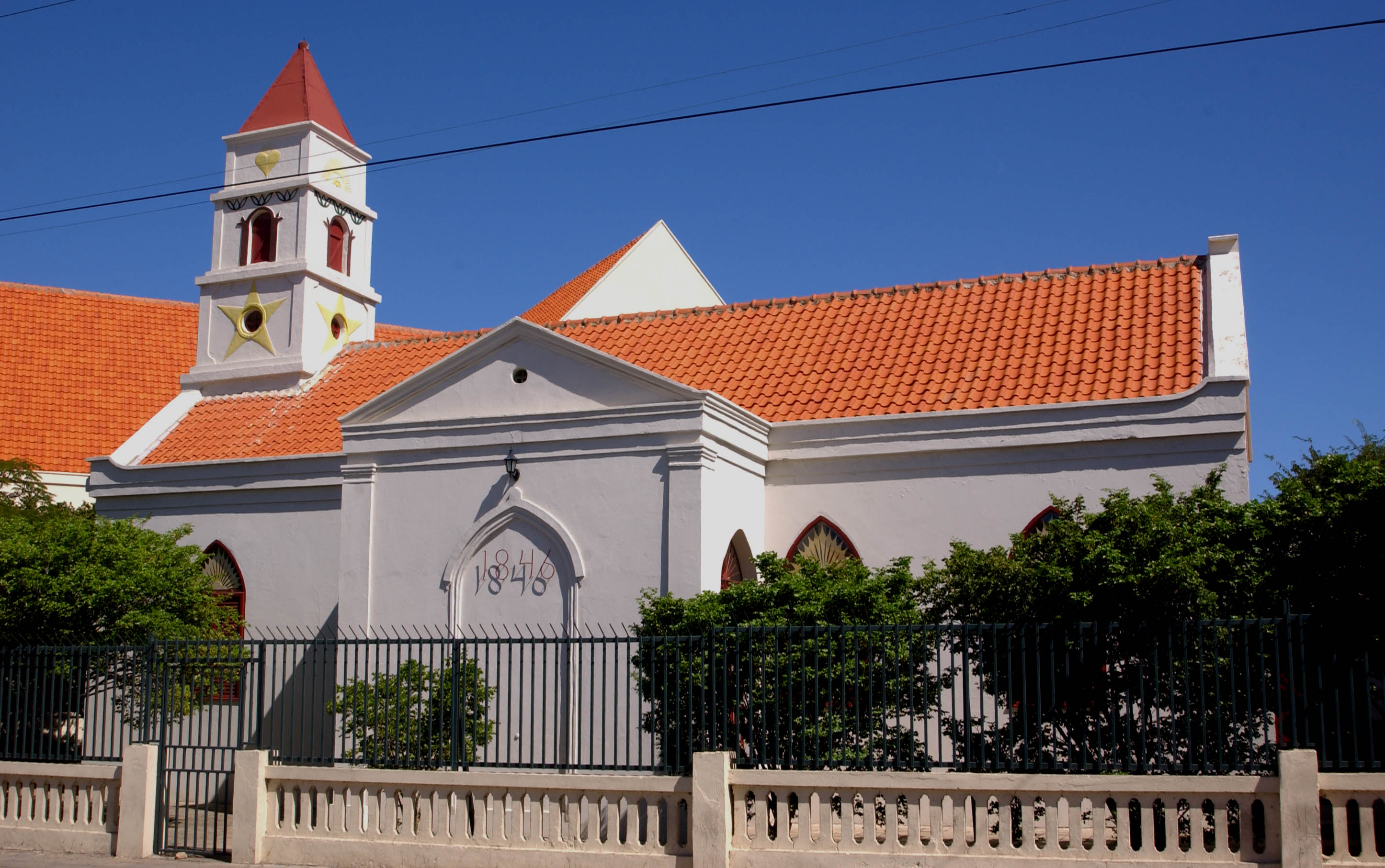 PROTESTANT CHURCH ON WILHELMINASTRAAT 1 FROM 1846 AND REBUILT IN 1948; TERRACOTTA TILE ROOF, SQUARE TOWER,AND DECORATED WITH STARS, HEARTS} Oranjestad, Aruba